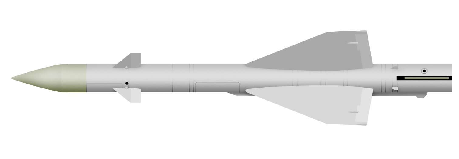 Kaliningrad R-8 (AA-3-Anab) air to air missile scheme